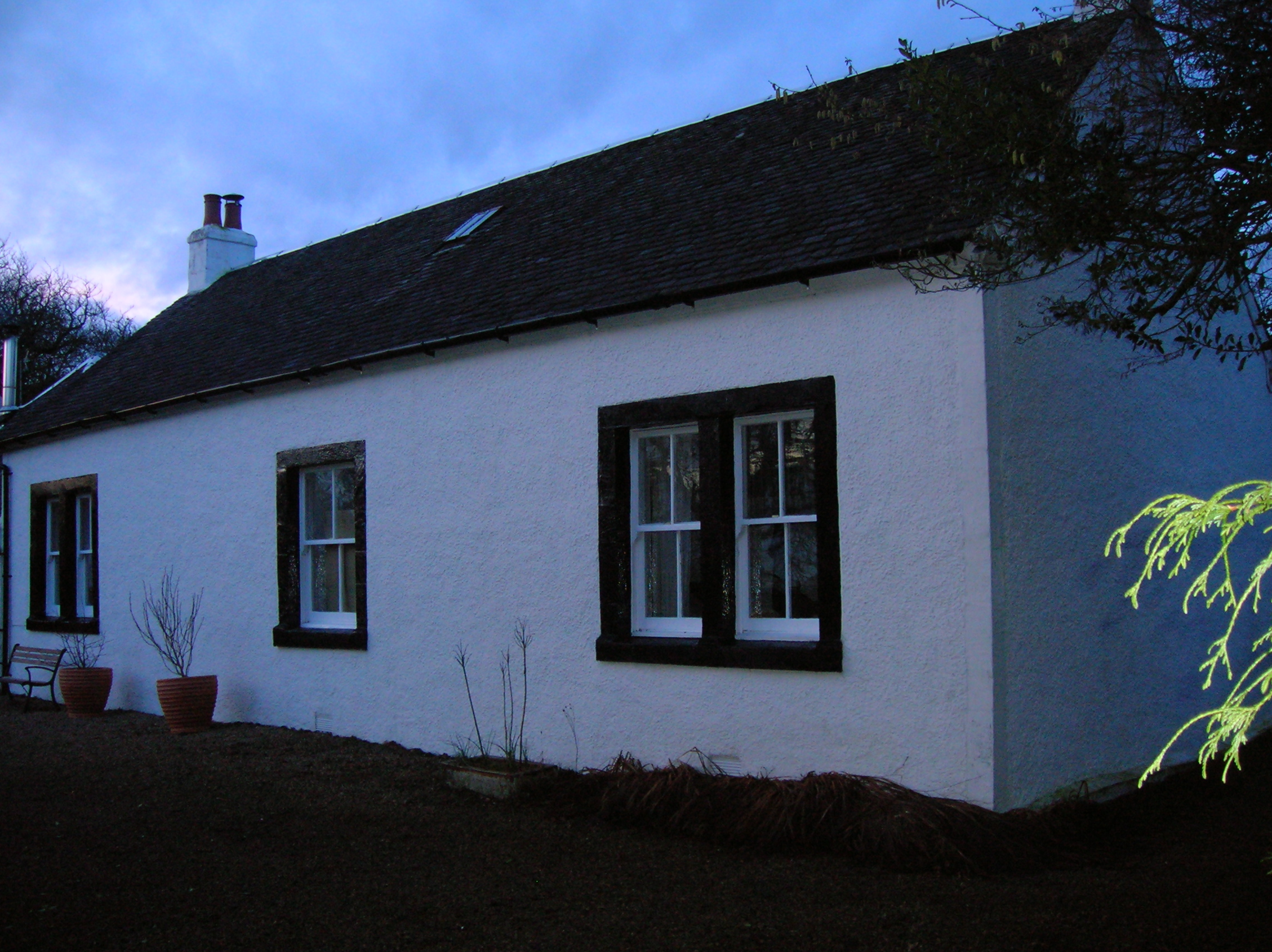 Bonshaw Farm, North Ayrshire, Scotland